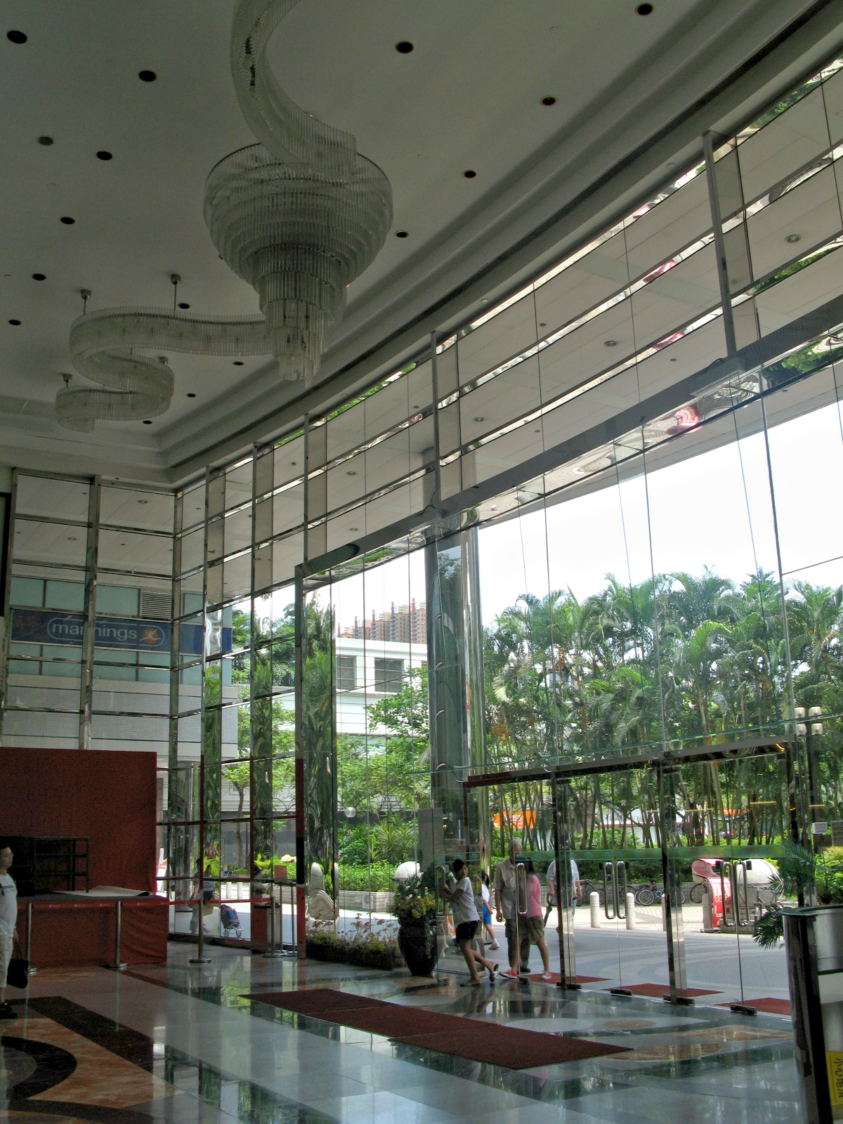 Tin Shui Wai Kingswood Richly Plaza VOID